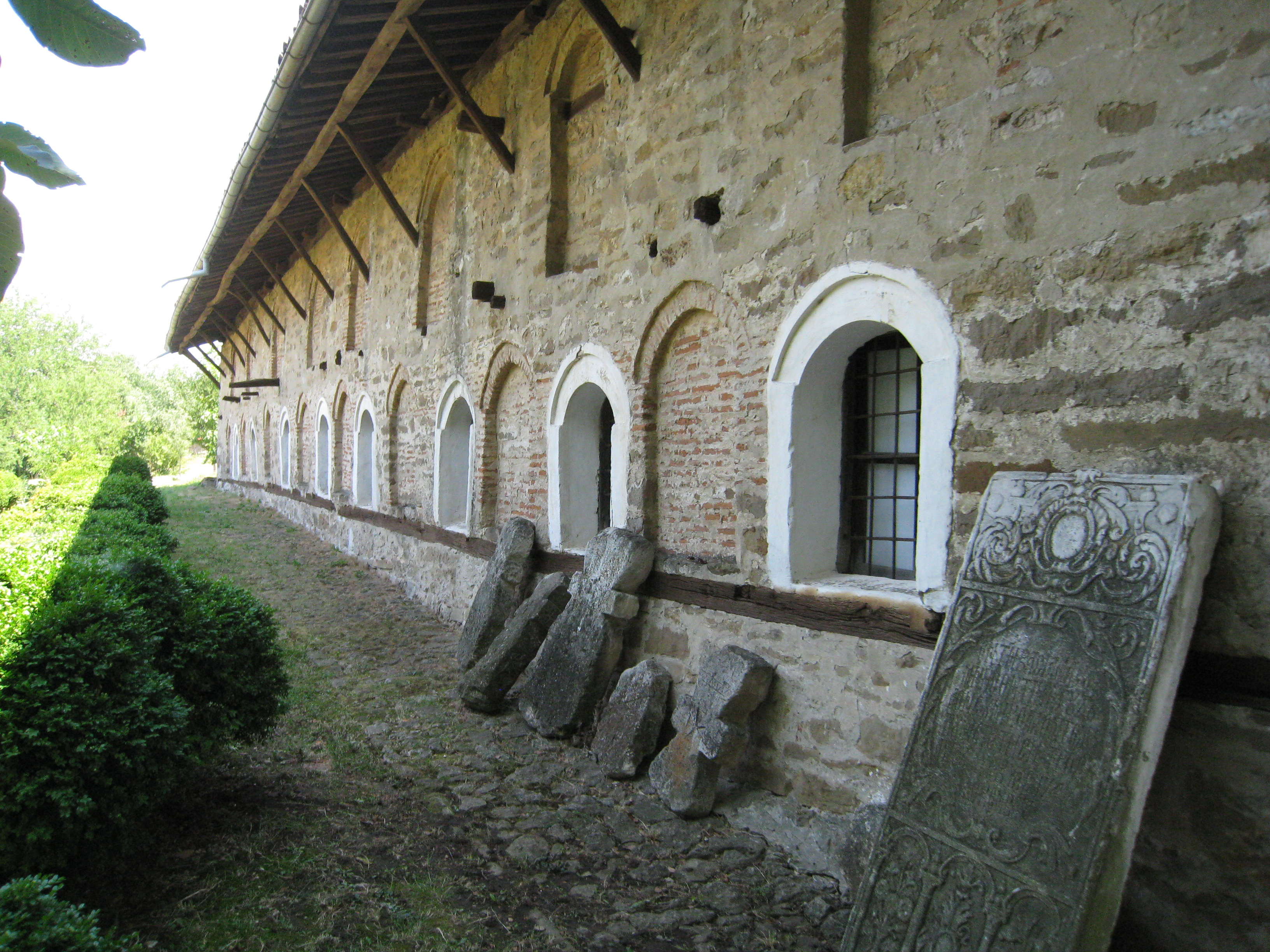 "This church has the most amazing frescos inside"